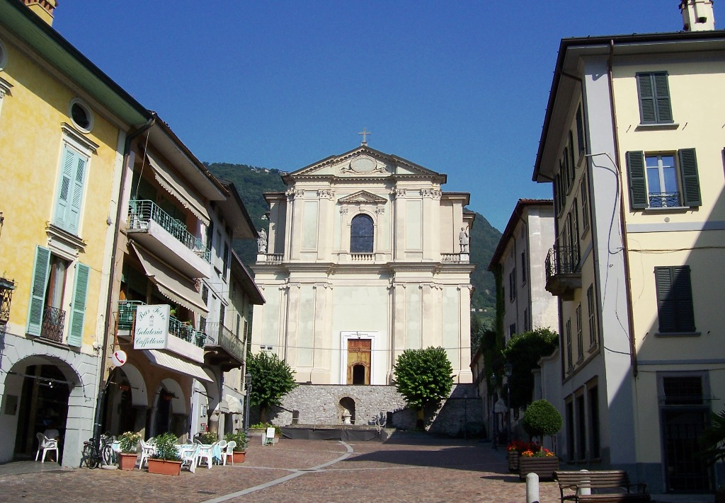 Parish Church of st Mary, Pisogne, Val Camonica